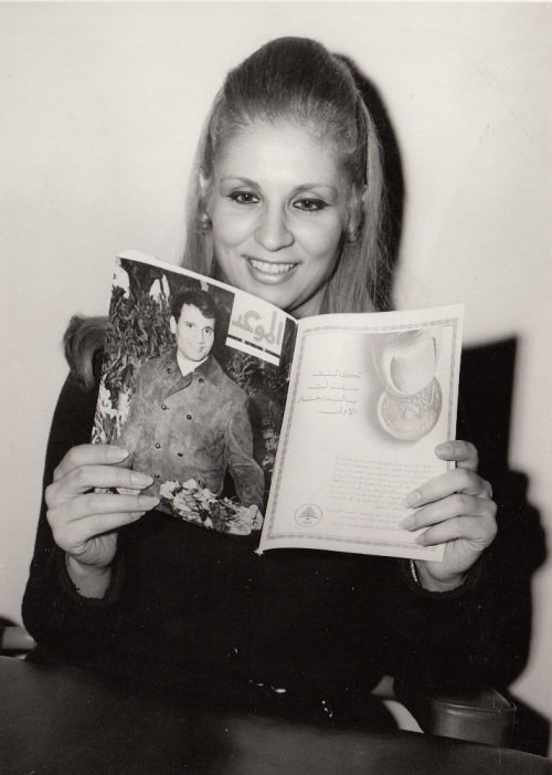 Lebanese Singer And Actress Sabah Reading An Issue Of Al Mawed Magazines during one of her interviews.